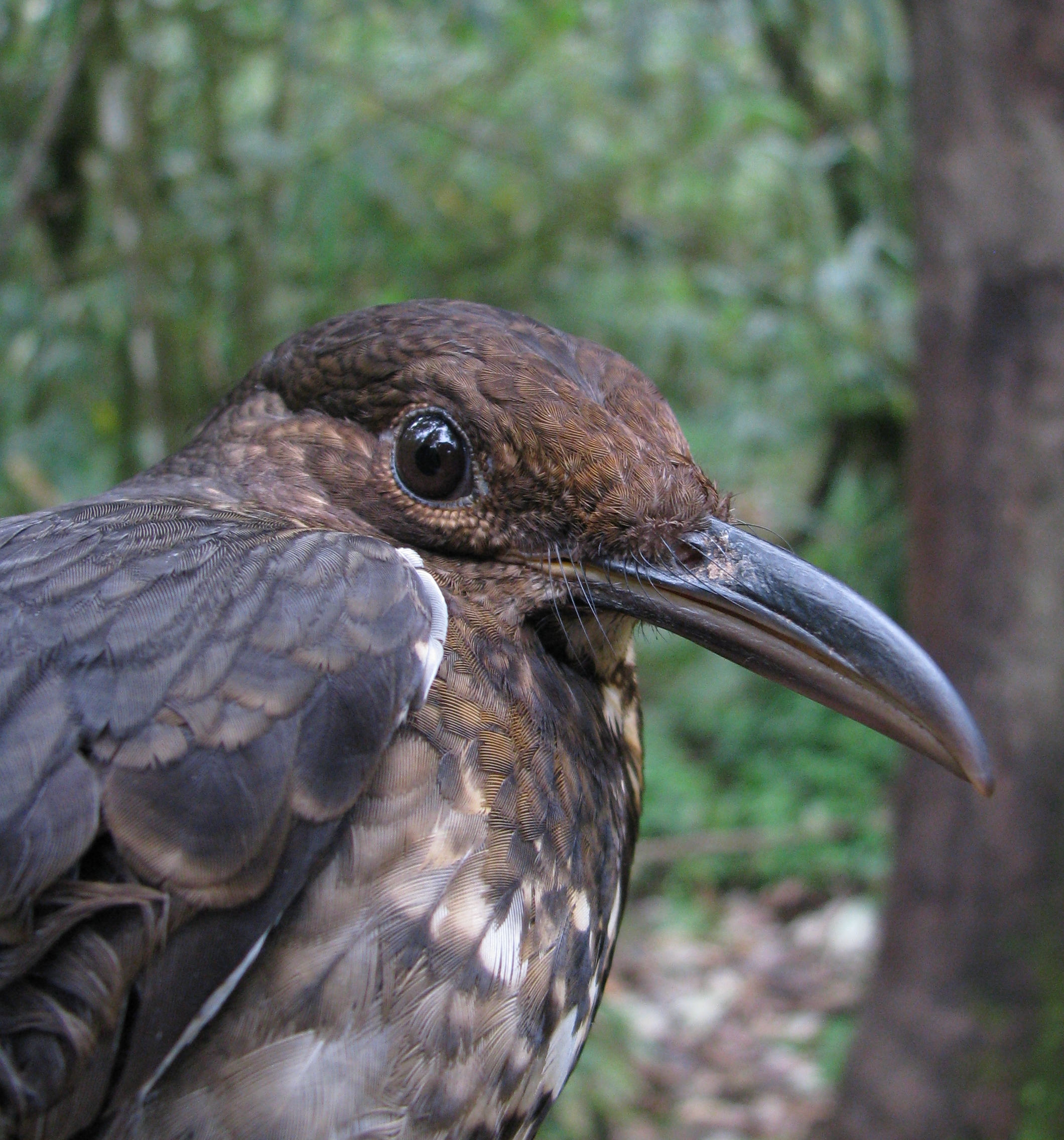 Long-billed Thrush, Eaglenest Wildlife Sanctuary